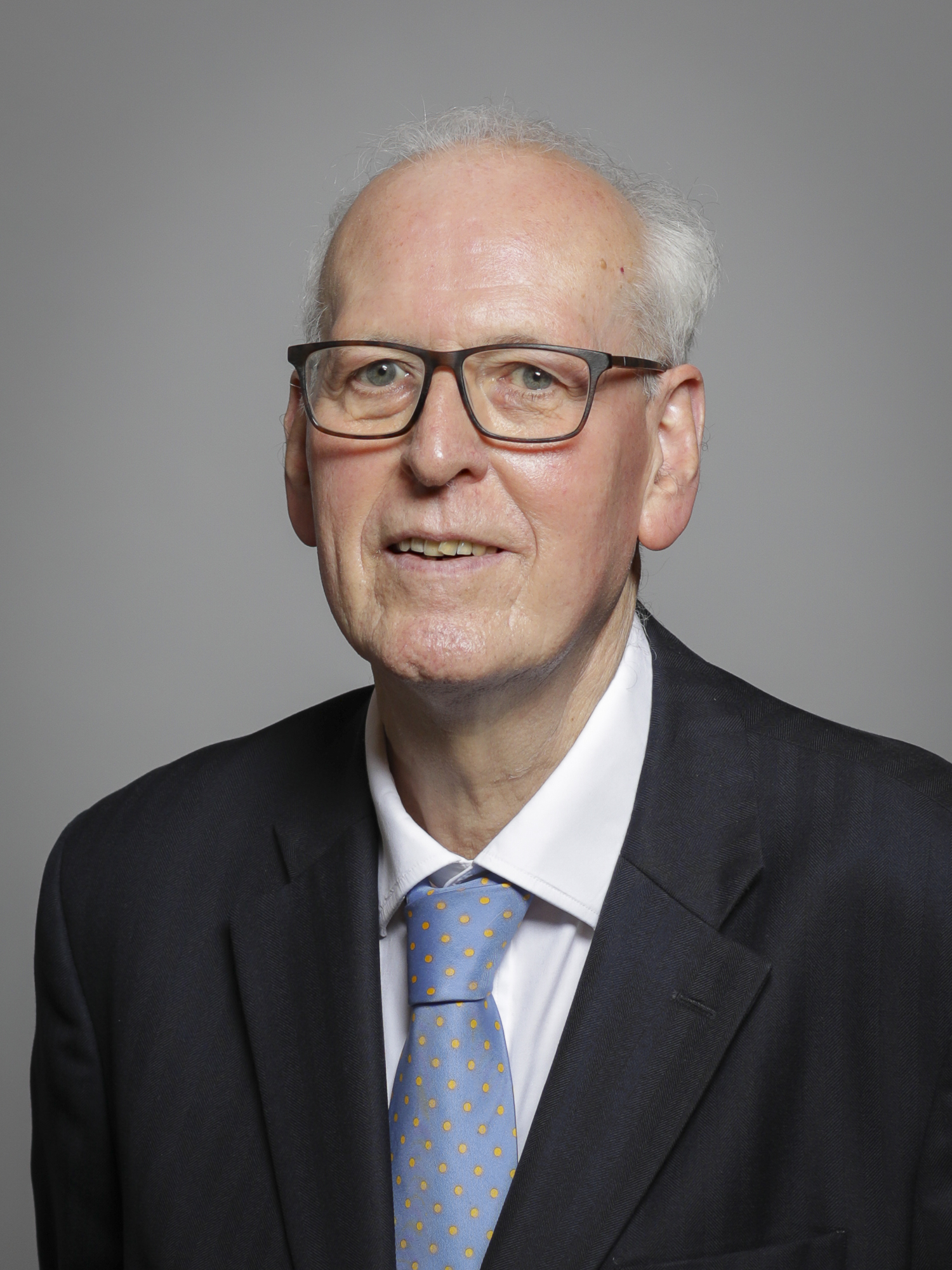 Official portrait of Lord Hennessy of Nympsfield 3×4 portrait of Lord Hennessy of Nympsfield